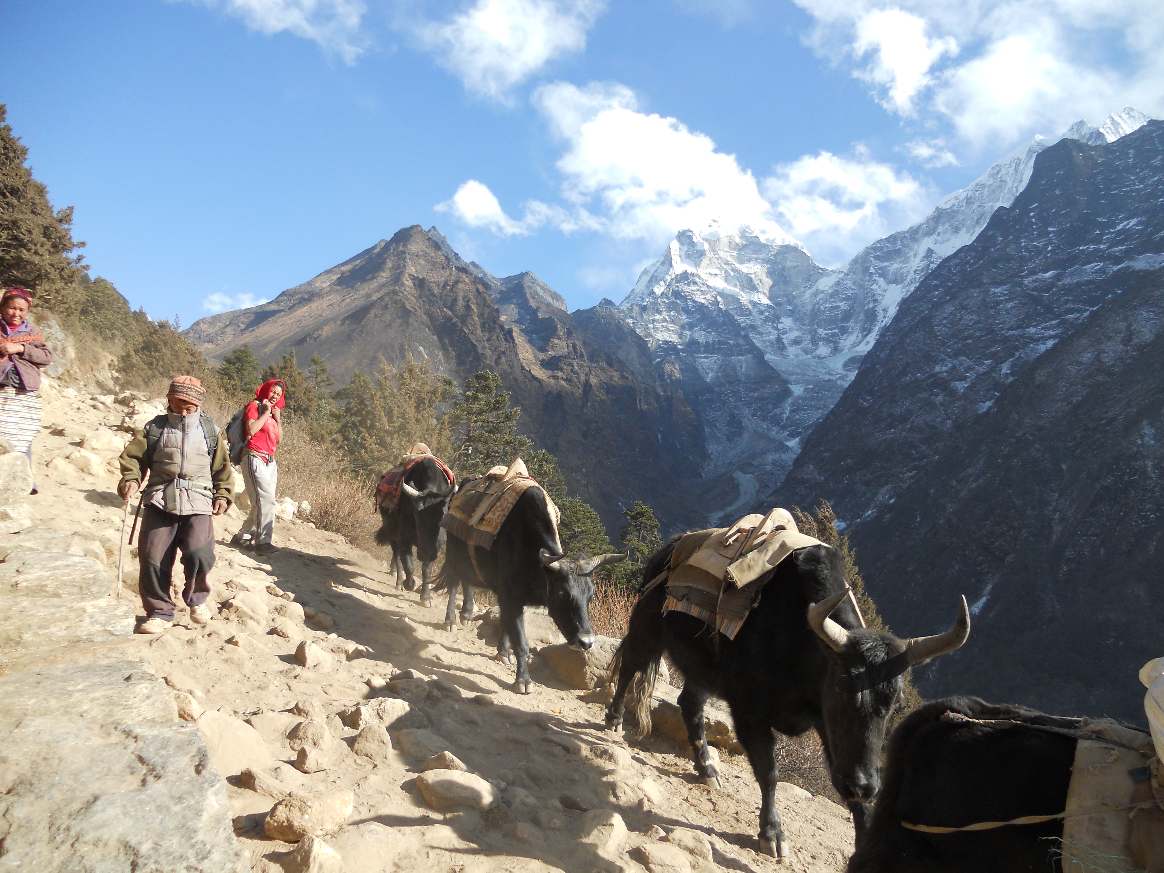 Means of transport in mountain area